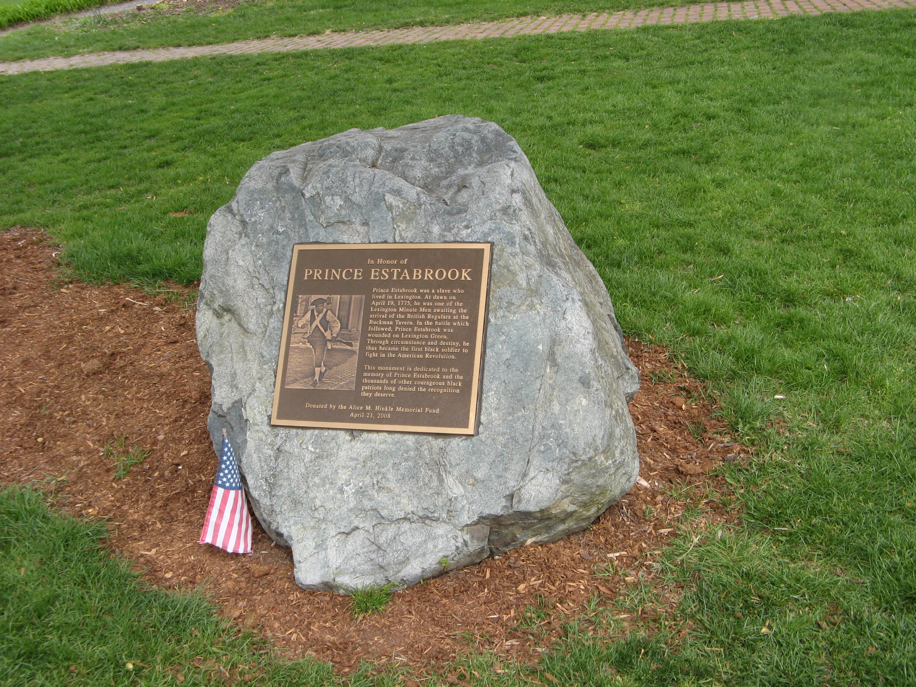 Close up of monument commemorating Prince Estabrook in front of Buckman Tavern, Lexington, MA, USA.